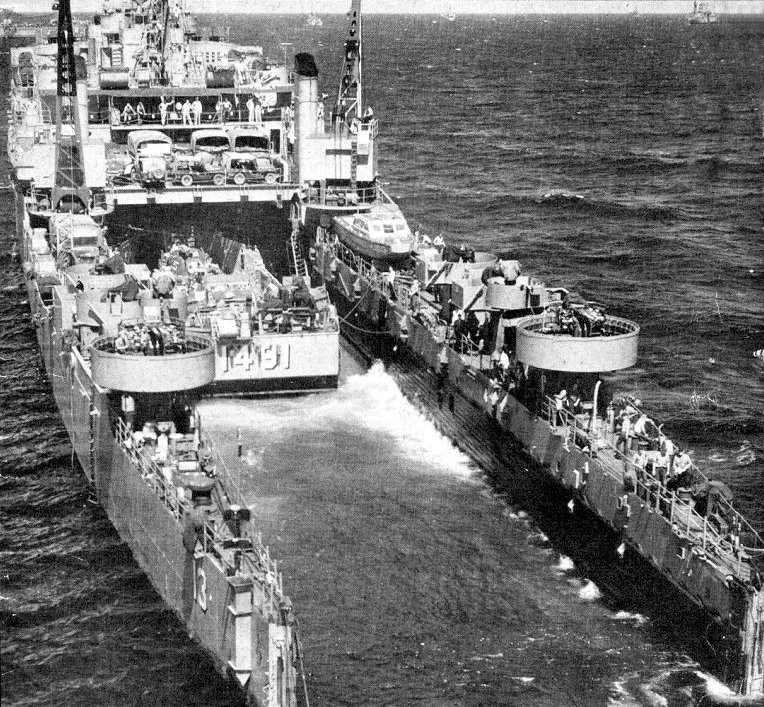 The U.S. Navy dock landing ship USS Casa Grande (LSD-13) discharging LCU-1491 from her well deck, date and location unknown.